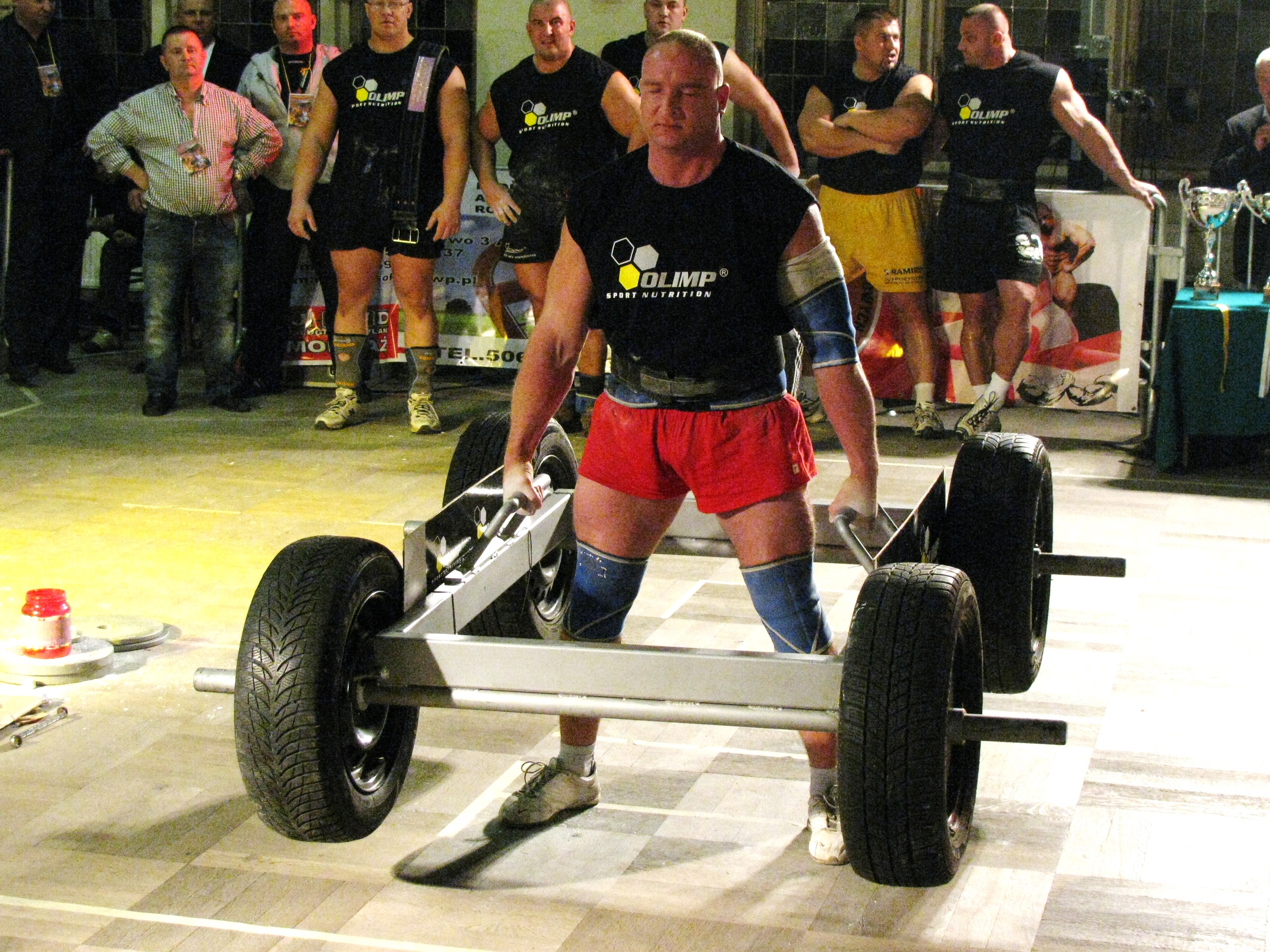 Tyberiusz Kowalczyk - a strength athlete from Poland.